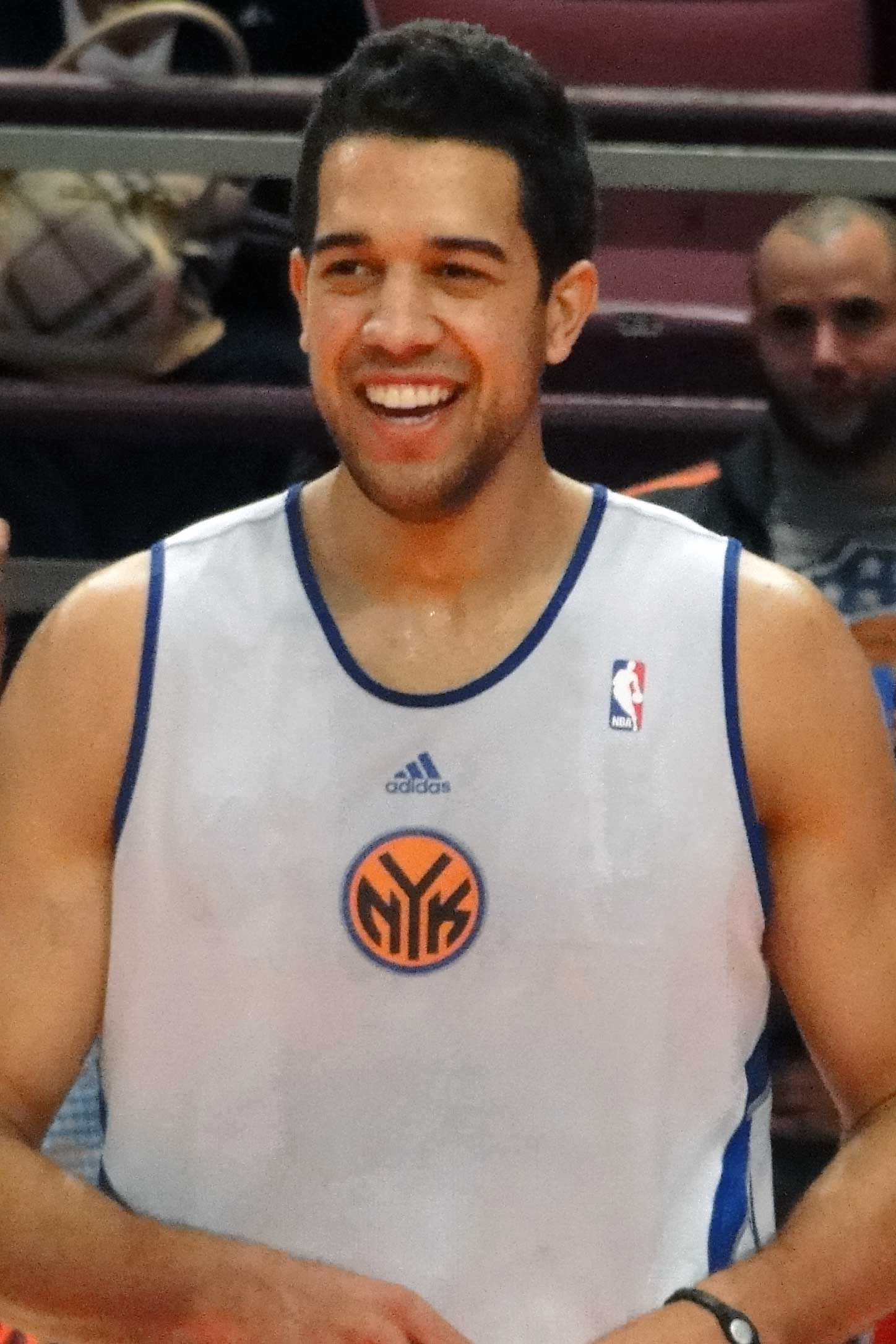 Landry Fields of the New York Knicks during an open practice session at the Madison Square Garden in October 2010. This file has been extracted from another file: Landry Fields laughing.jpg